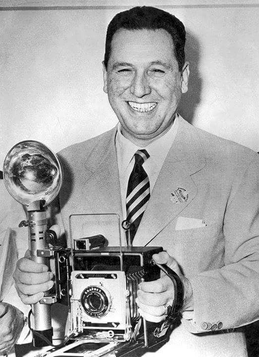 Former President of Argentina, Juan D. Perón, posing with a camera.